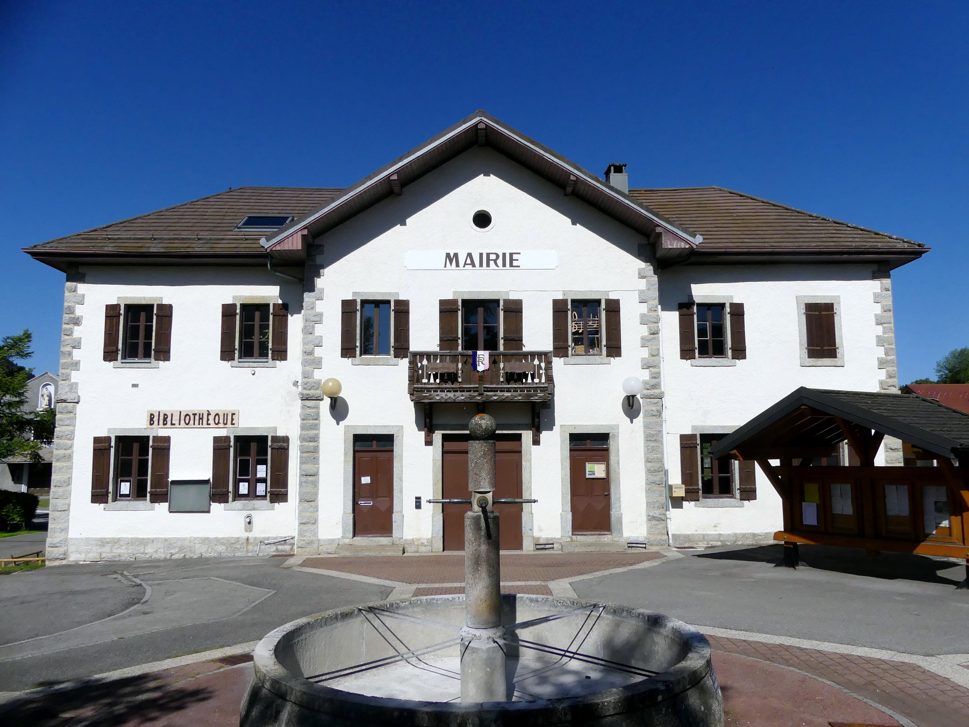 Sight of Thollon-les-Mémises city hall, in Haute-Savoie, France.